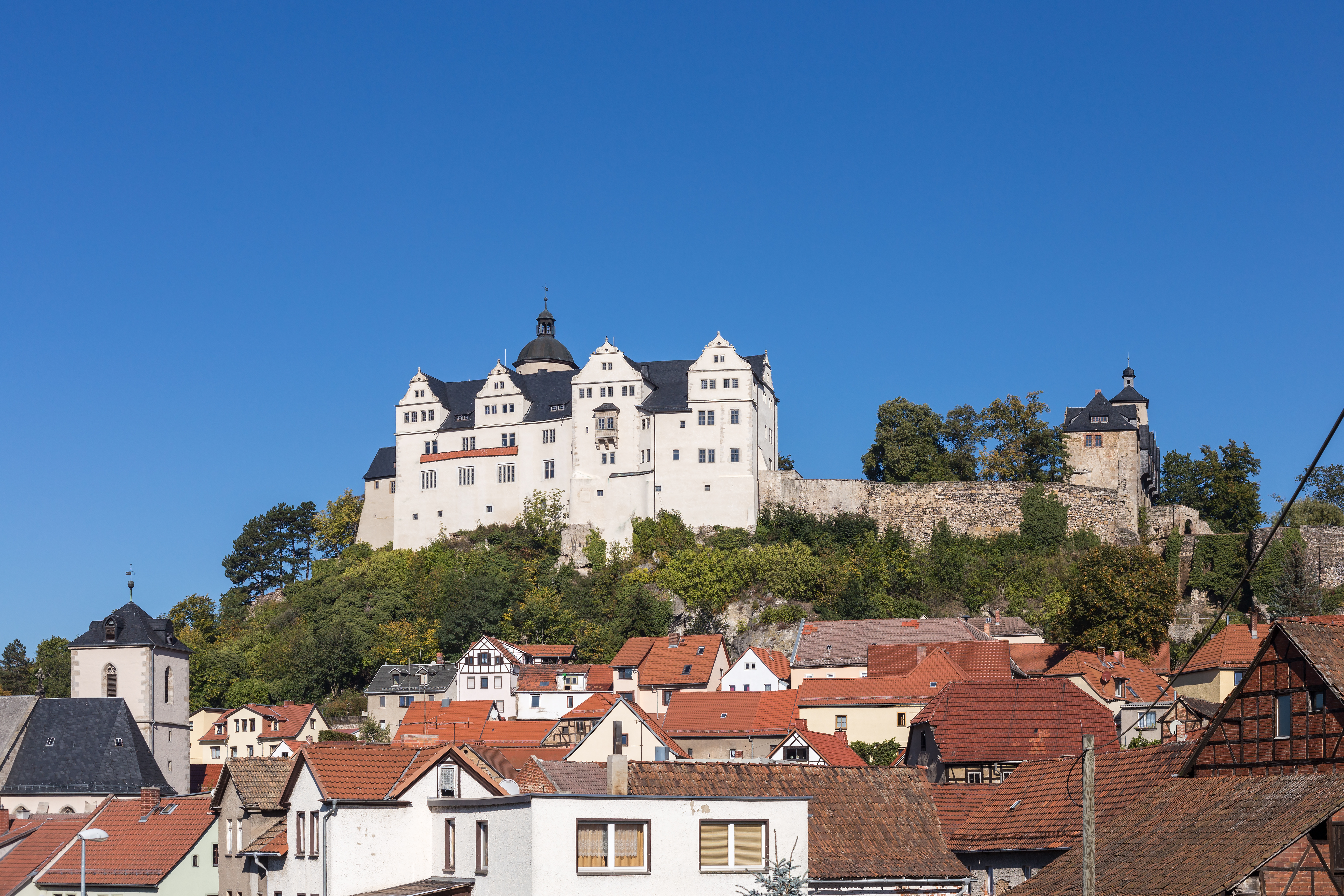 The castle of Ranis.